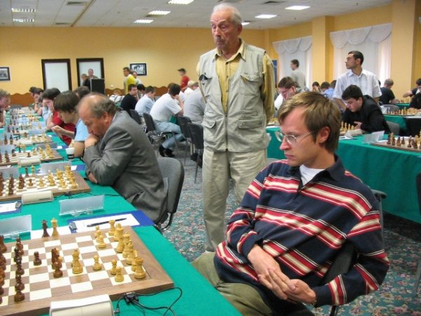 Sergey Tiviakov, Warsaw 2005